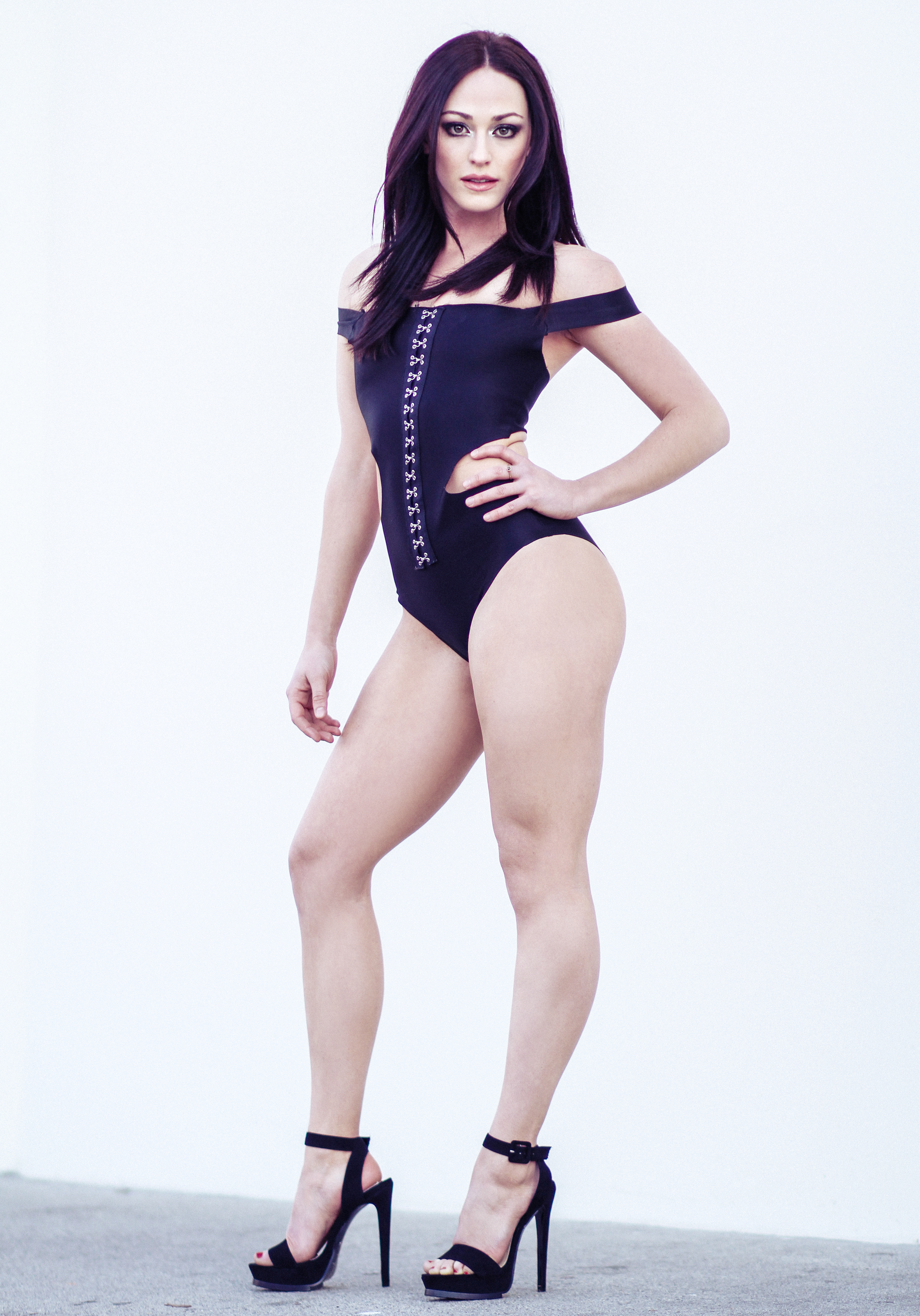 Haylee Roderick modeling